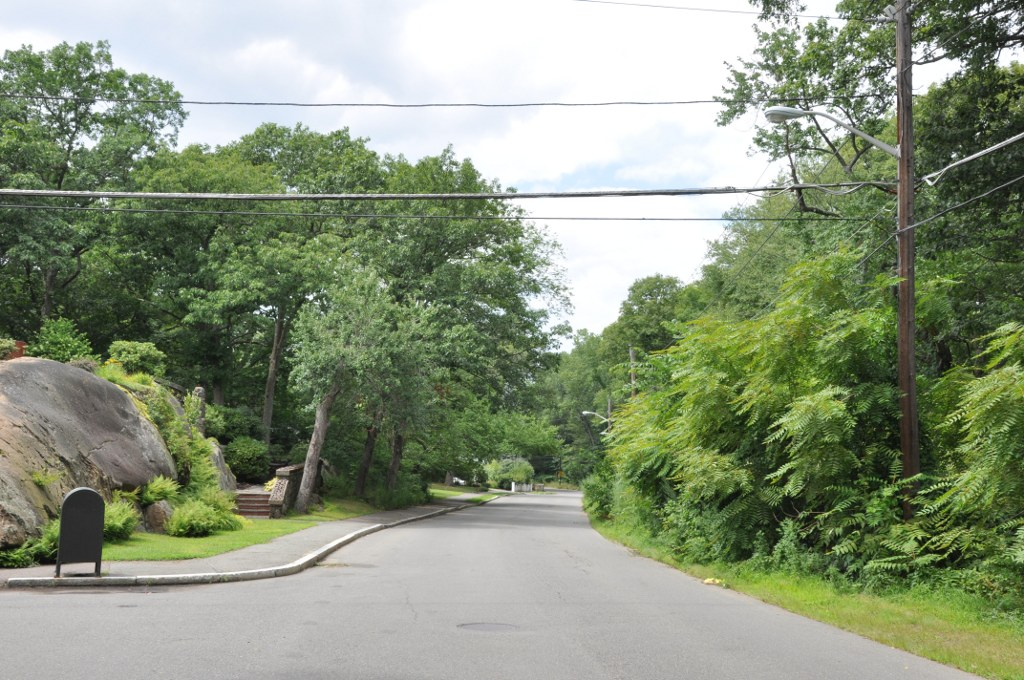 East Border Road on the edge of the Middlesex Fells Reservation in Malden, Massachusetts. This road is listed as part of the Middlesex Fells Reservation Parkways.